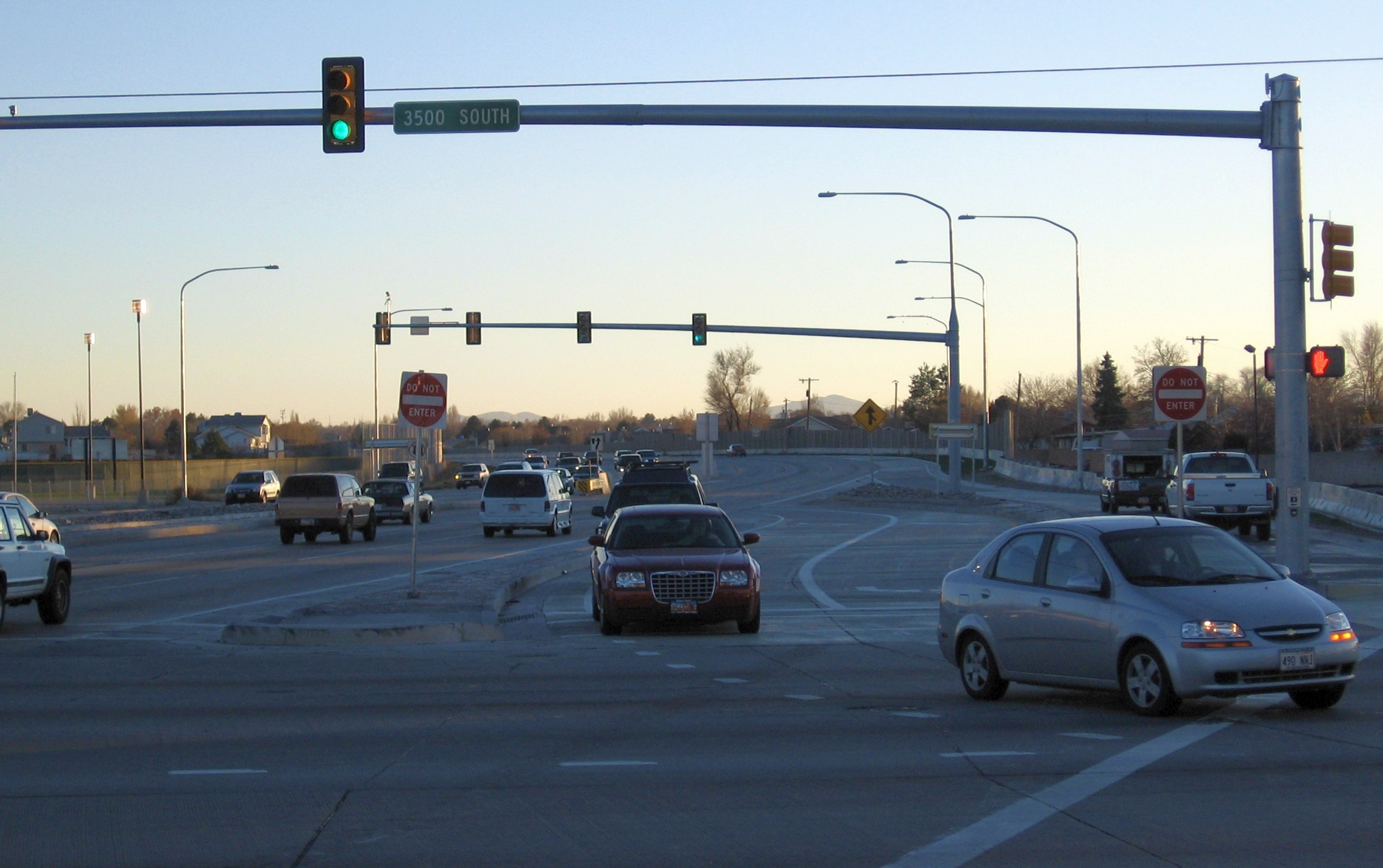 A view of the Continuous flow intersection located at the Bangerter Highway and 3500 South in West Valley City, Utah, USA. Oncoming traffic turning left cross over opposing lanes (at the far semaphore) while the thru-traffic is stopped. The left turning vehicles collect on the right (shown in the center section lanes), permitting thru-traffic and left turning vehicles to proceed through the intersection at the same time. 2 trucks turning right can be seen at the far right of the photo. Note that this type of intersection may require one more set of traffic lights for each direction using this method (one set seen here in the distance).